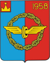 Ozherelye (Moscow oblast), coat of arms (1989)